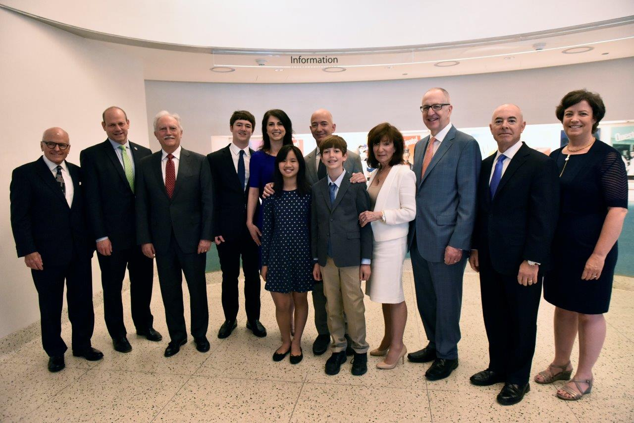 WASHINGTON - Deputy Secretary of Homeland Security Alejandro Mayorkas and Director of U.S. Citizenship and Immigration Services León Rodríguez naturalize 20 new U.S. Citizens in a Naturalization Ceremony held at the Smithsonian’s National Museum of American History in Washington, D.C., June 14, 2016. During the ceremony, Army Spc. Jae Seon Shim led the Pledge of Allegiance, and Jeff Bezos, founder and CEO of was awarded the James Smithson Bicentennial medal. Official DHS photo by Barry Bahler.